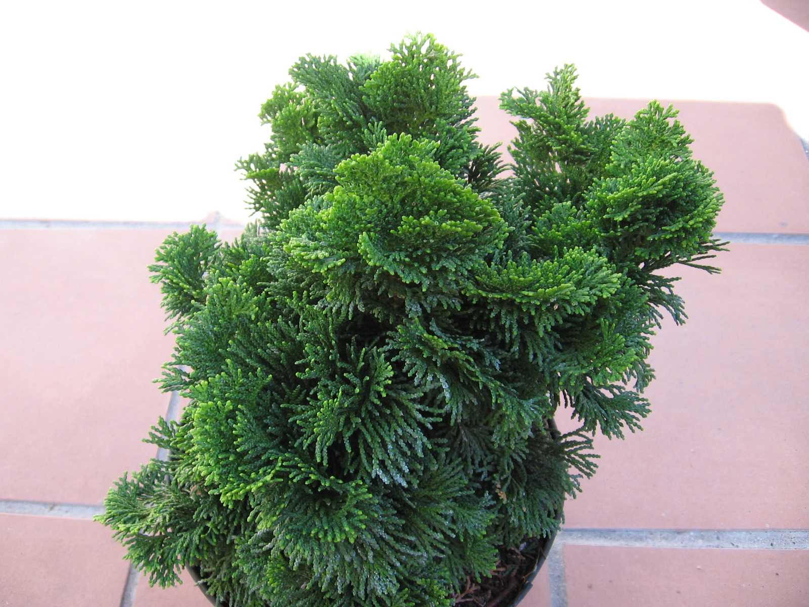 Chamaecyparis obtusa 'Nana_Gracilis'